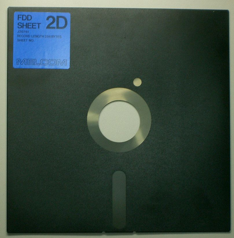 Melcom 8 inch floppy disk